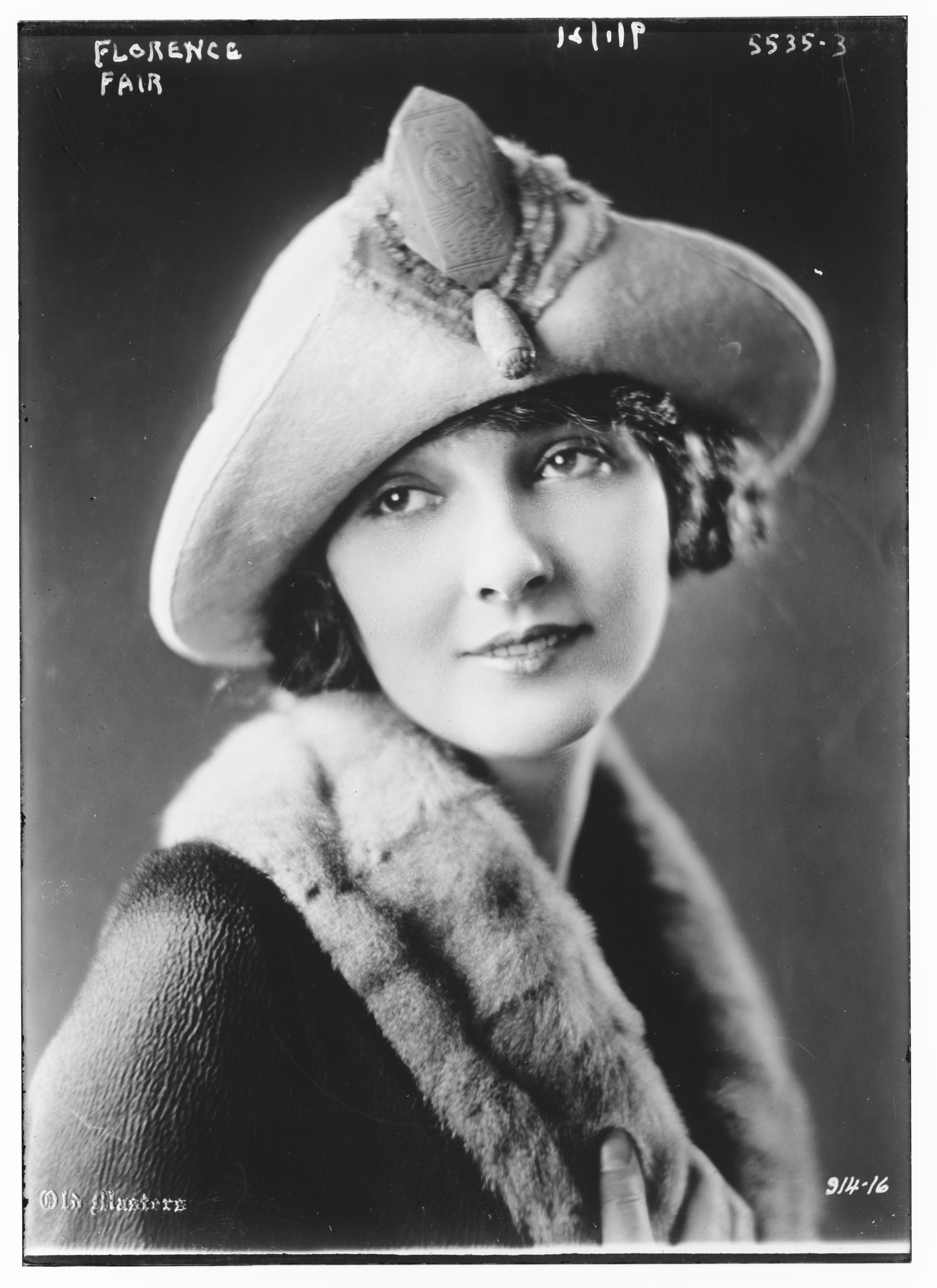 Title: Florence Fair Abstract/medium: 1 negative : glass ; 5 x 7 in. or smaller.